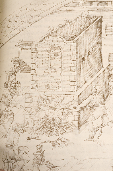 I tre libri dell'arte del vasaio, by Cipriano Piccolpasso (1524 Casteldurante – 21 November 1579) was an architect, historian, ceramist and painter of Italian majolica, author of several treatises on ceramics and design of fortresses.